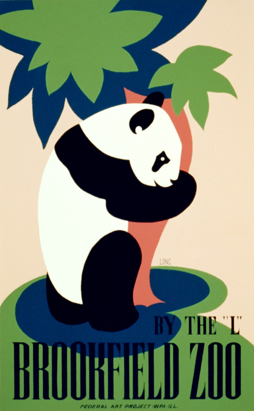 Brookfield Zoo--By the "L" (or El). Poster showing a panda bear hugging a tree.